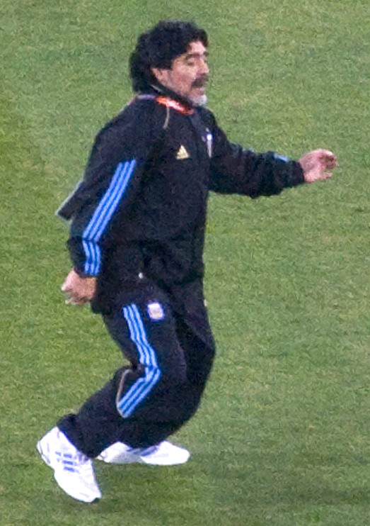 Argentina's national coach, Diego Maradona, warms up with a team member before the Argentina-Mexico match that Argentina won.